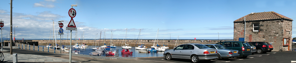 Fisherow harbour at Musselburgh Davidspiers 22:55, 12 August 2006 (UTC) David Spiers